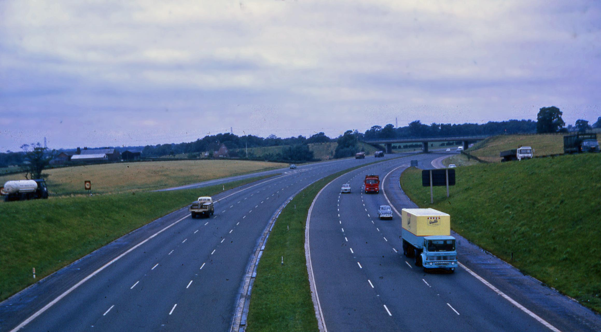 M6 motorway, Cheshire, England.